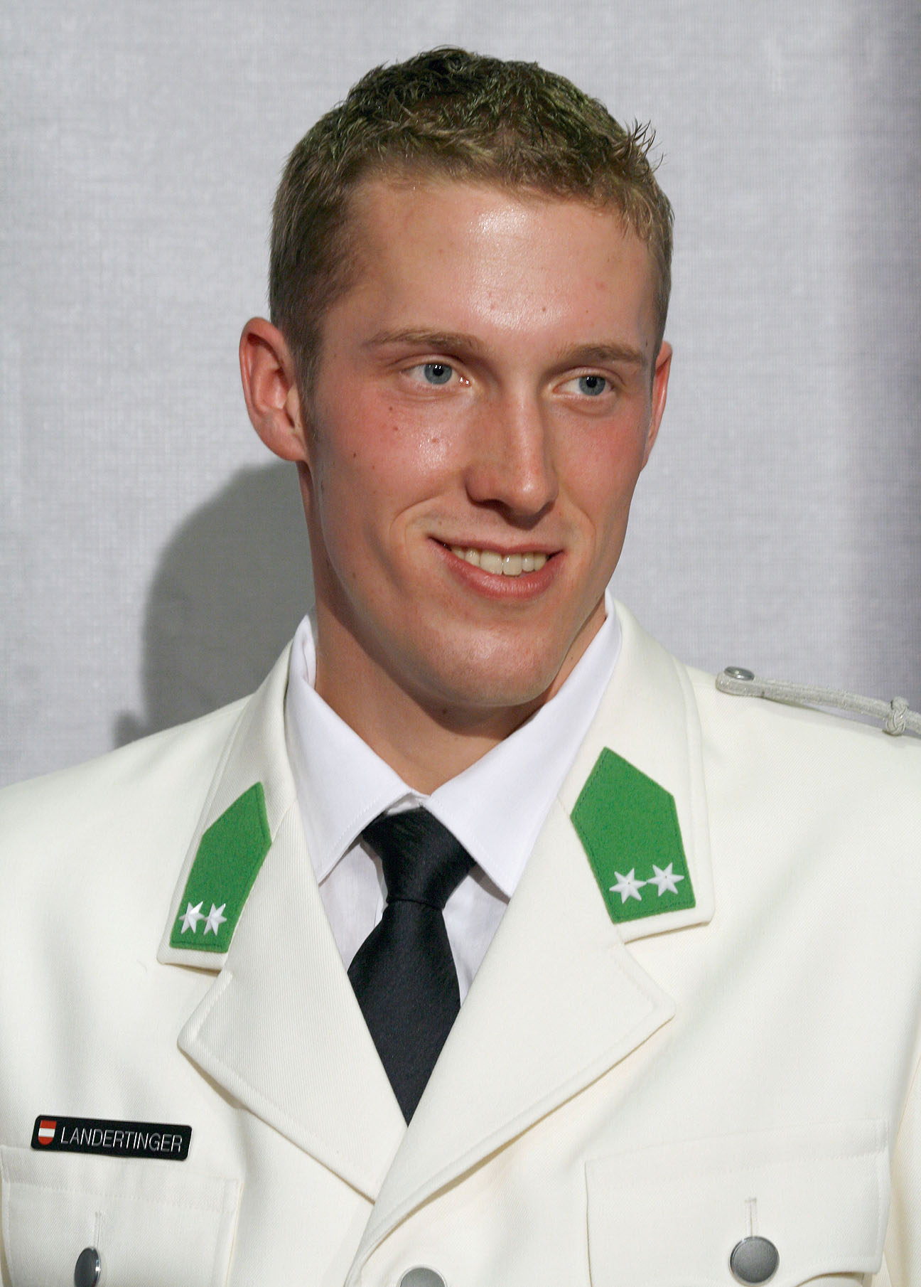 Dominik Landertinger at the award show for the Austrian Sportspersonalities of the year 2009.